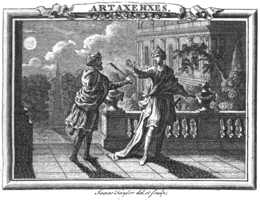 Metastasio - Artaxerxes - Hoole Vol.1 - London 1767